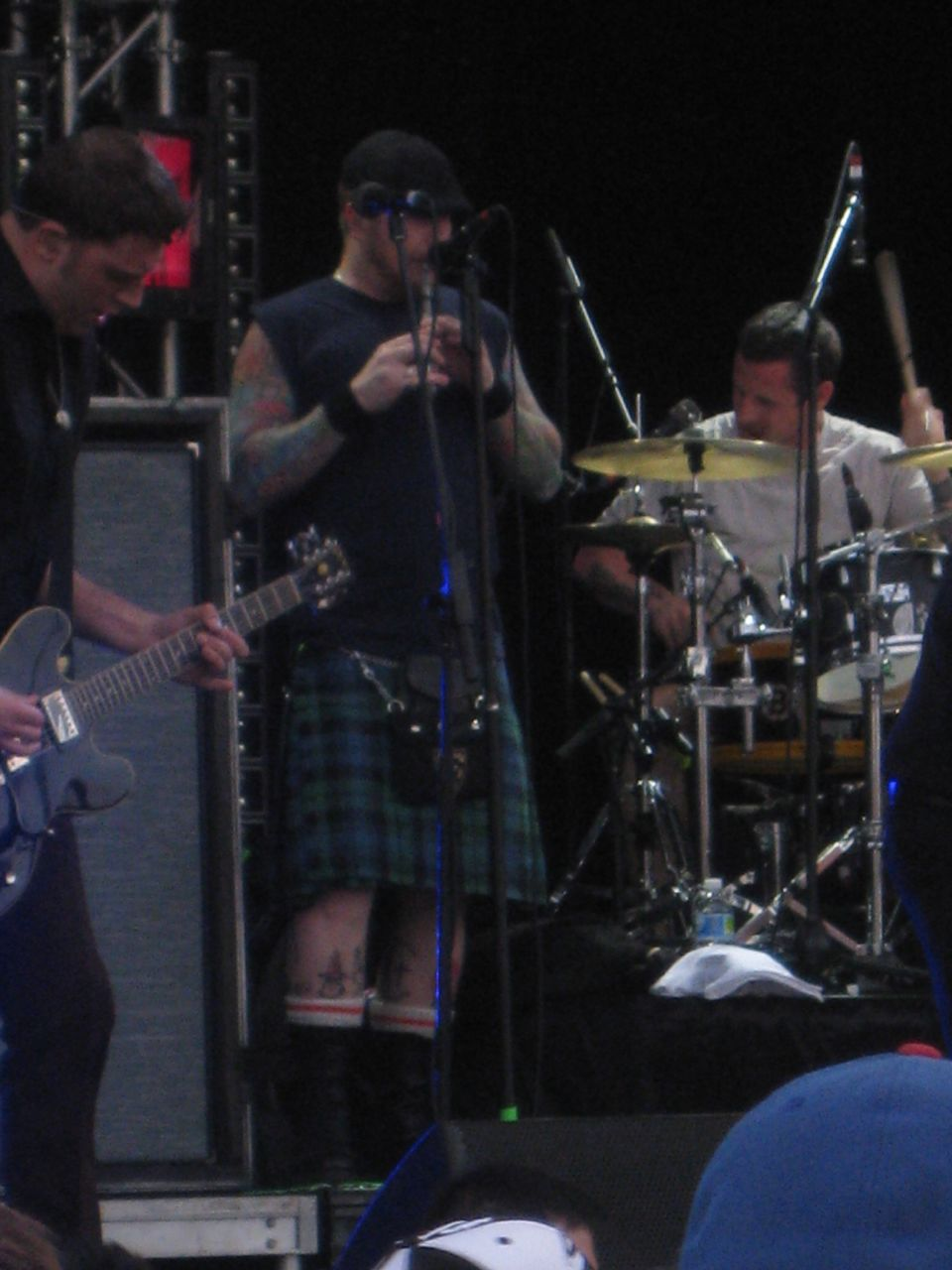 Tim Brennan, Scuffy Wallace and Matt Kelly at at Northerly Island Pavilion 6/20/09